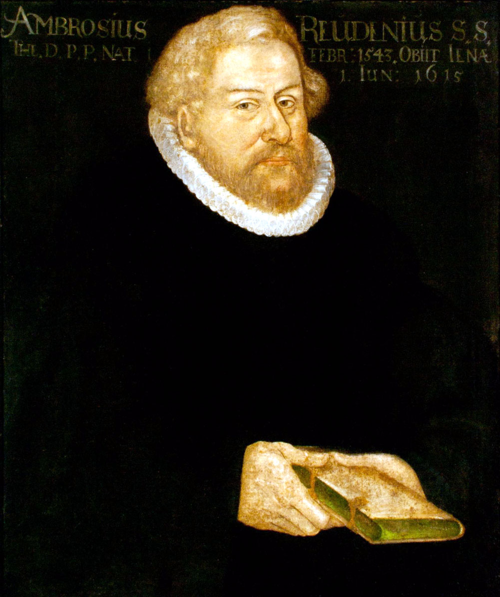 Ambrosius Reuden (1543-1615 ) German Philologist and protestant theologian